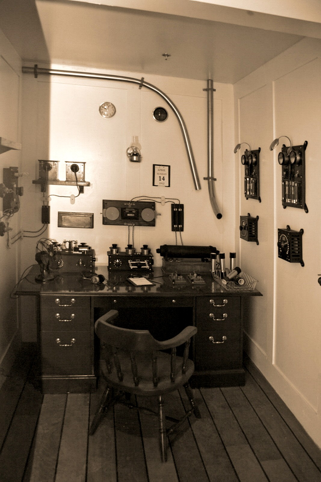 Description